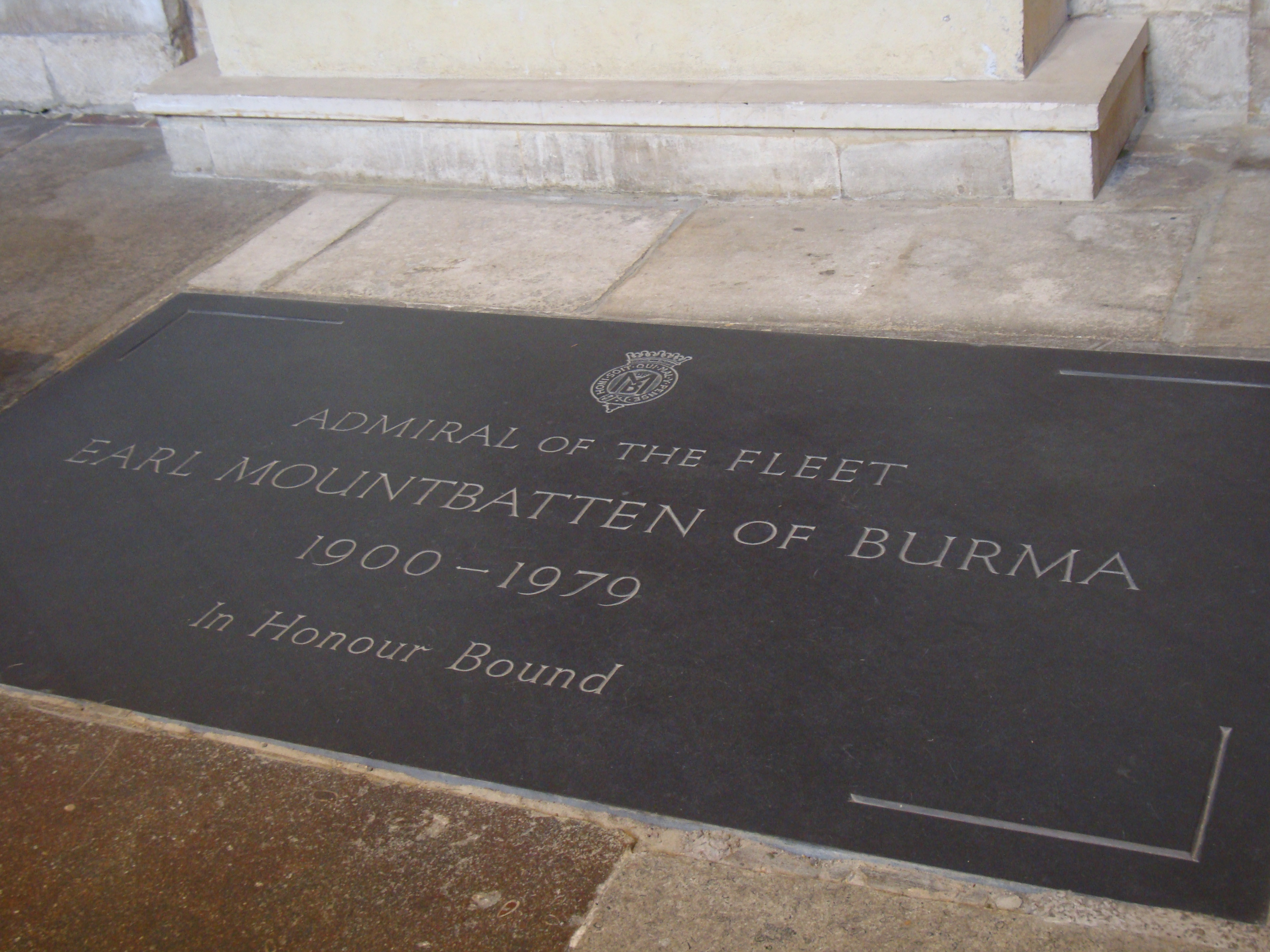 Photograph of the tomb of Earl Mountbatten of Burma at Romsey Abbey, Hampshire, England